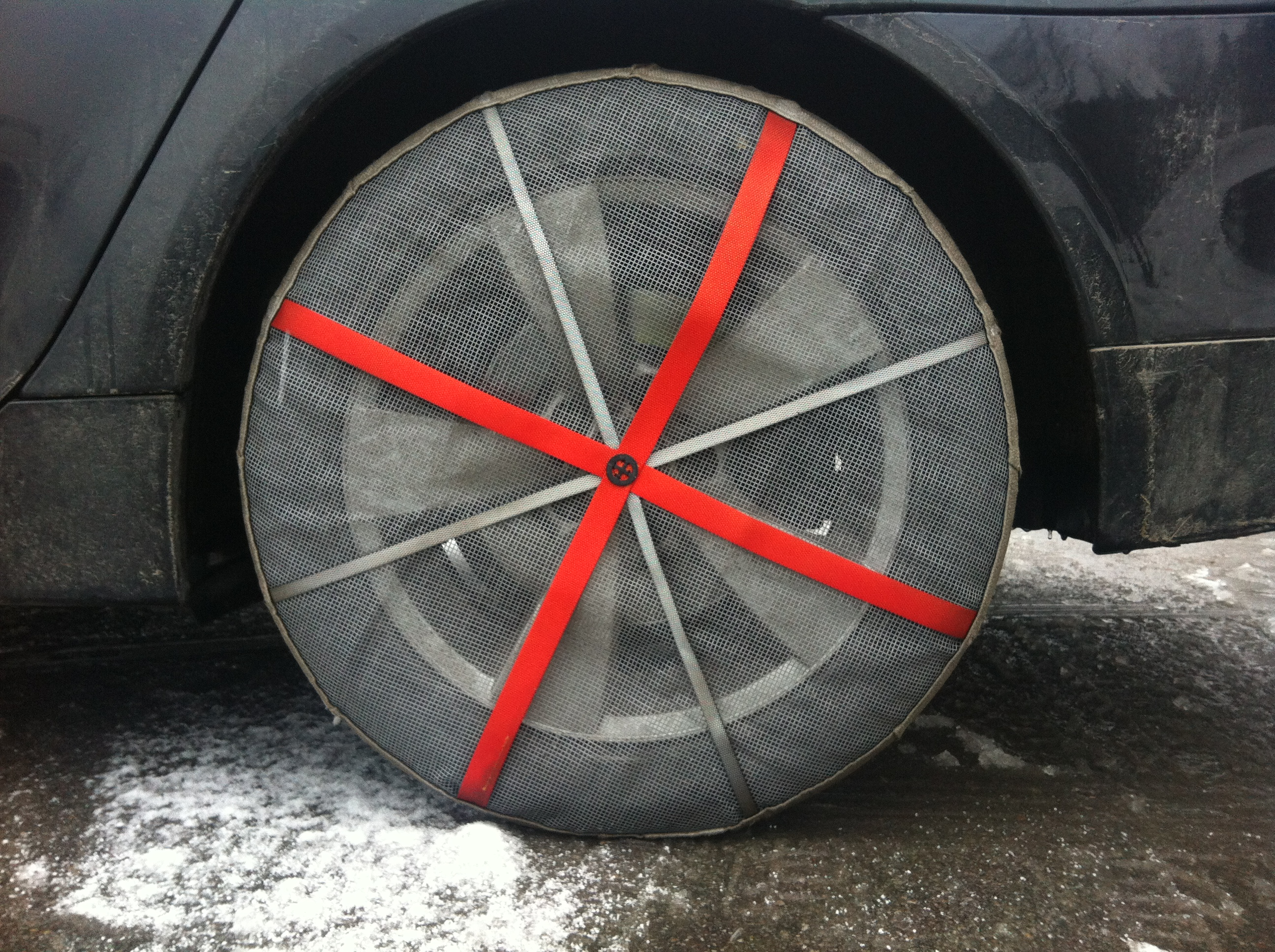 Snow chains made of fabric